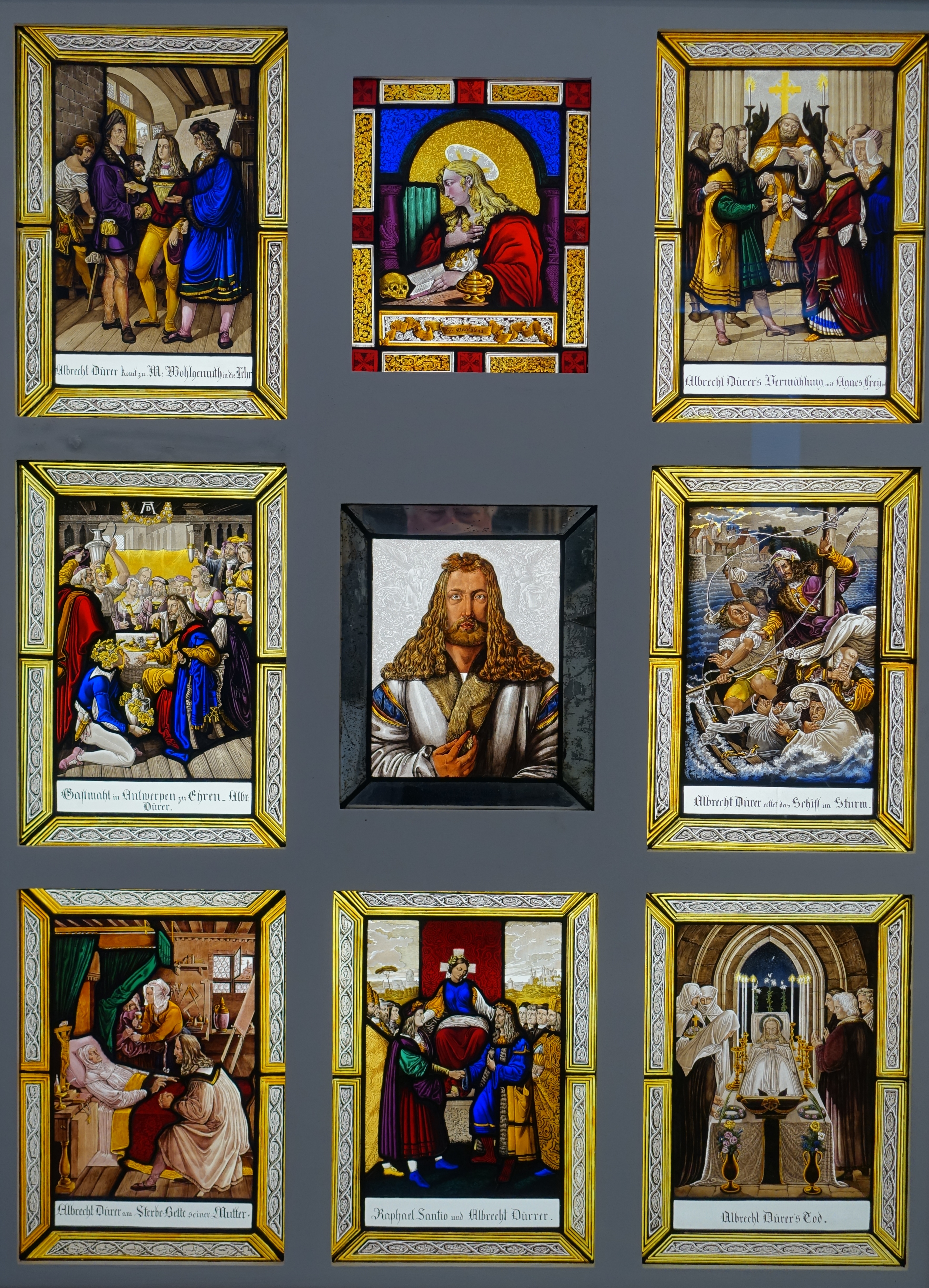 Exhibit in the Germanisches Nationalmuseum - Nuremberg, Germany.